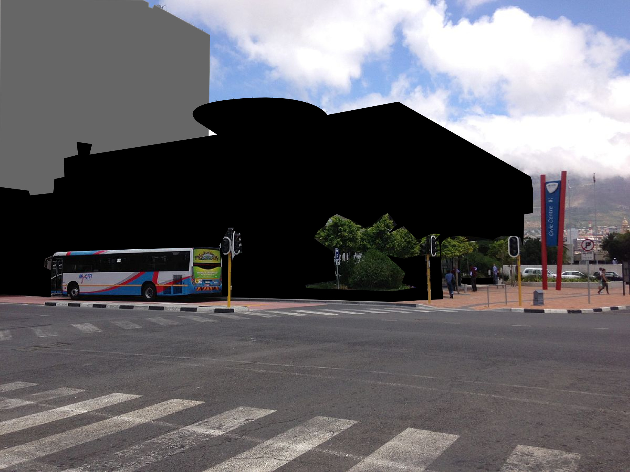 The Civic Centre station of the MyCiti Bus Rapid Transit system in Cape Town, South Africa along with a docked bus.